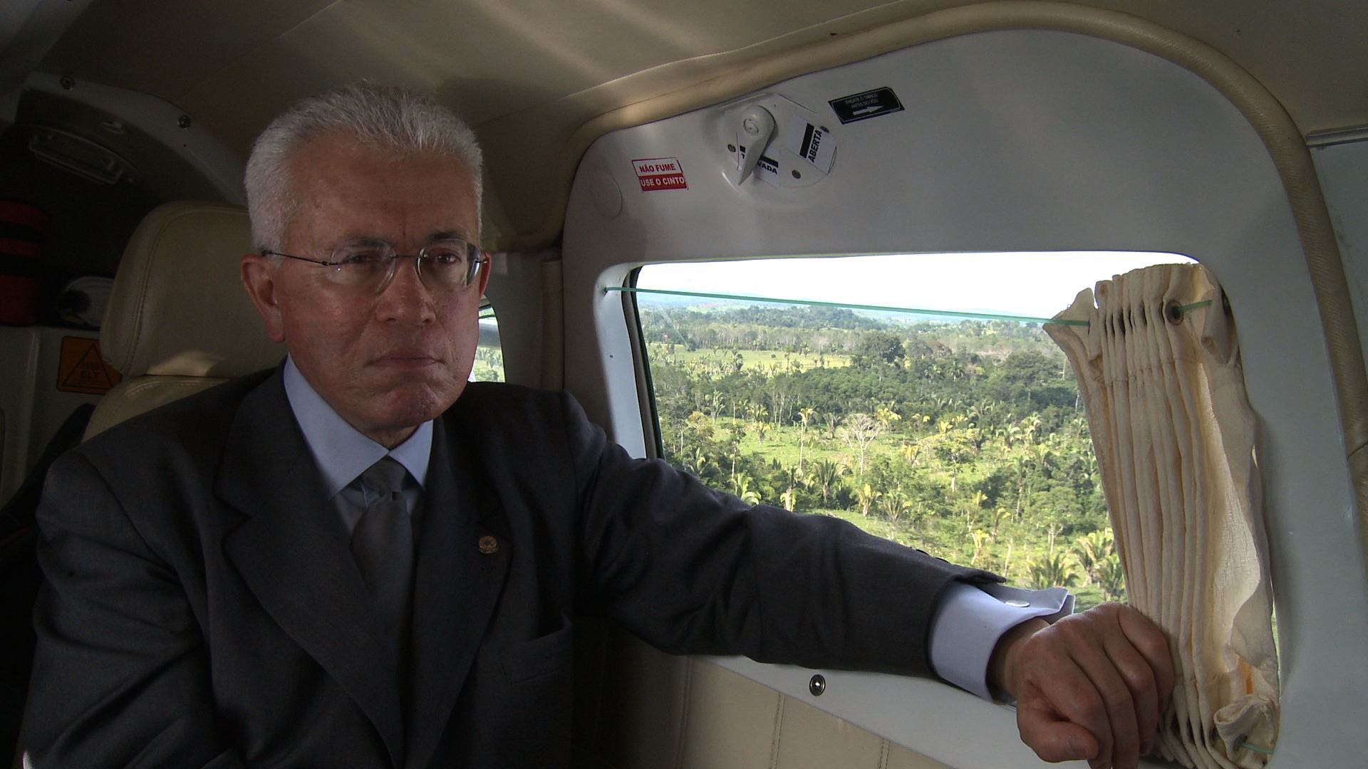 Roberto Unger touring the Amazon